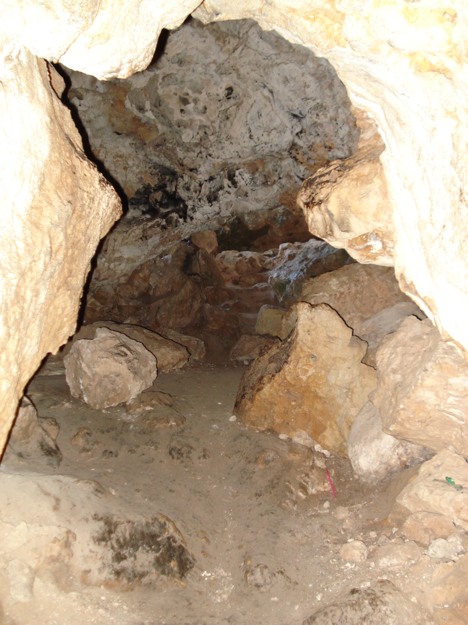 Inside the Calypso cave on Gozo, Malta